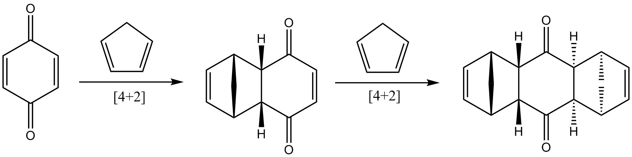 DA reaction in total synthesis